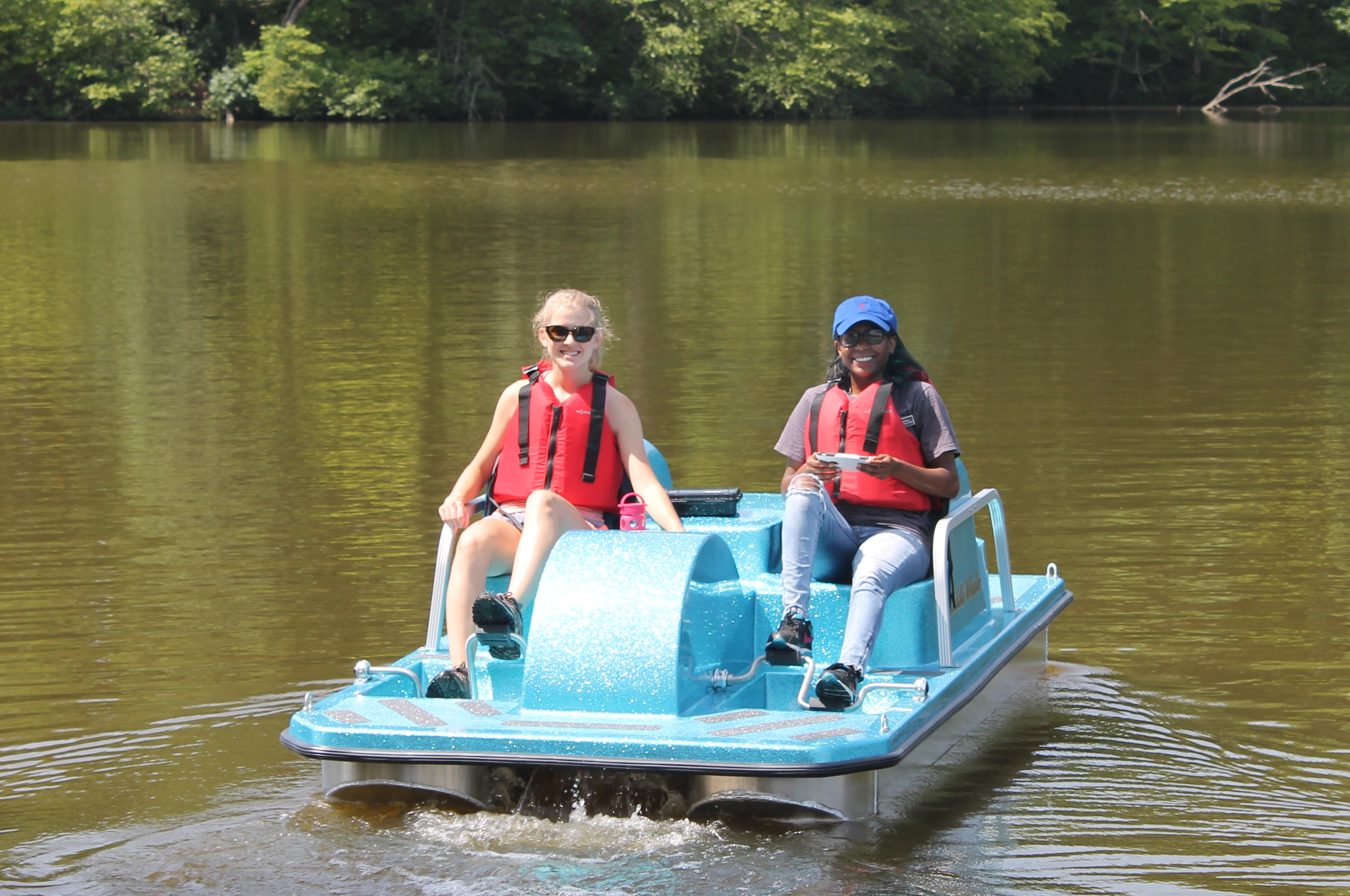 Taken by zar 2015 Bear Creek Lake State Park info